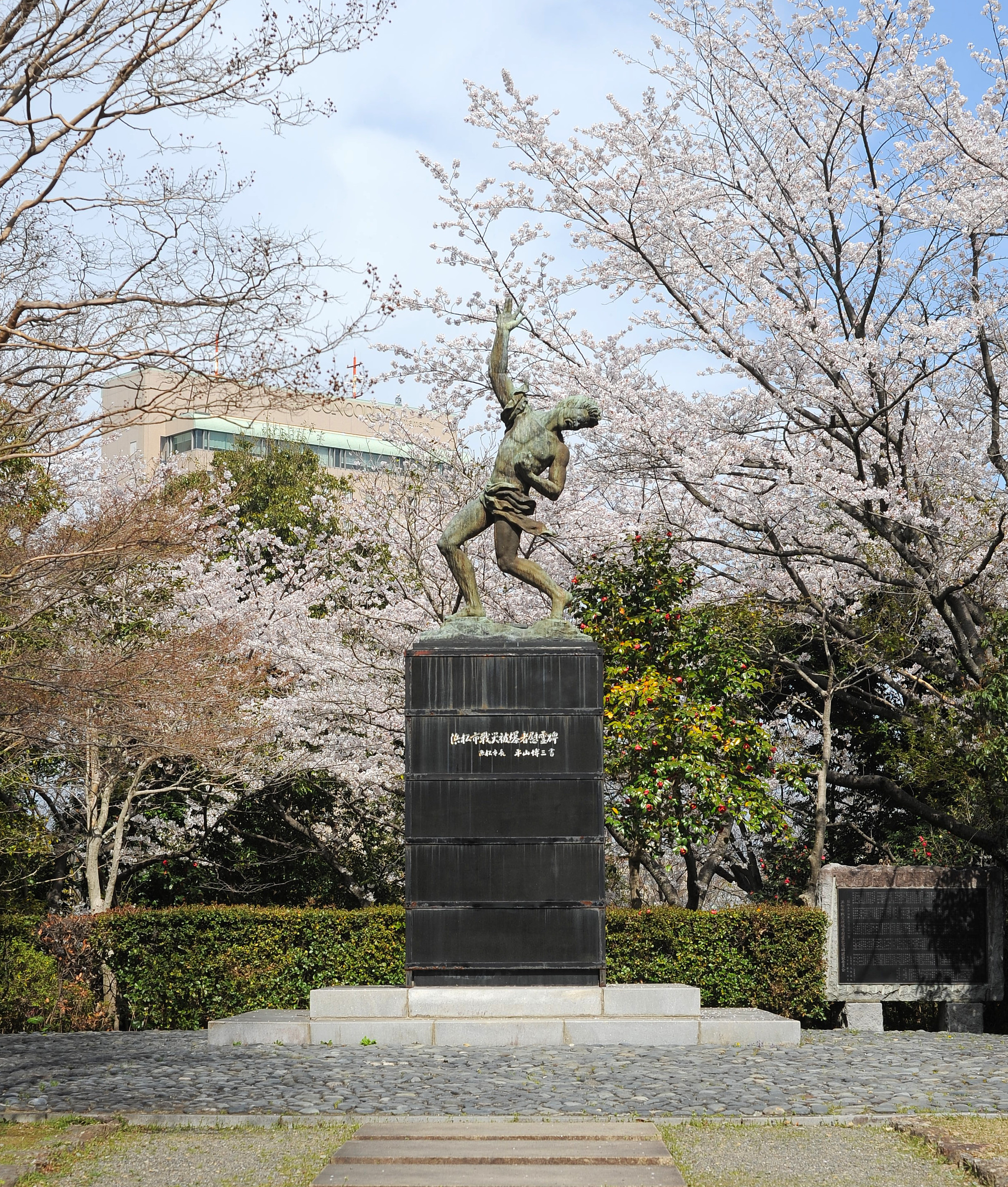 The cenotaph for bombing of Hamamatsu during World War II